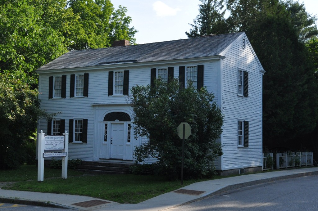 Dr. Moses Mason House, a Bethel Historical Society property, Bethel, Maine.